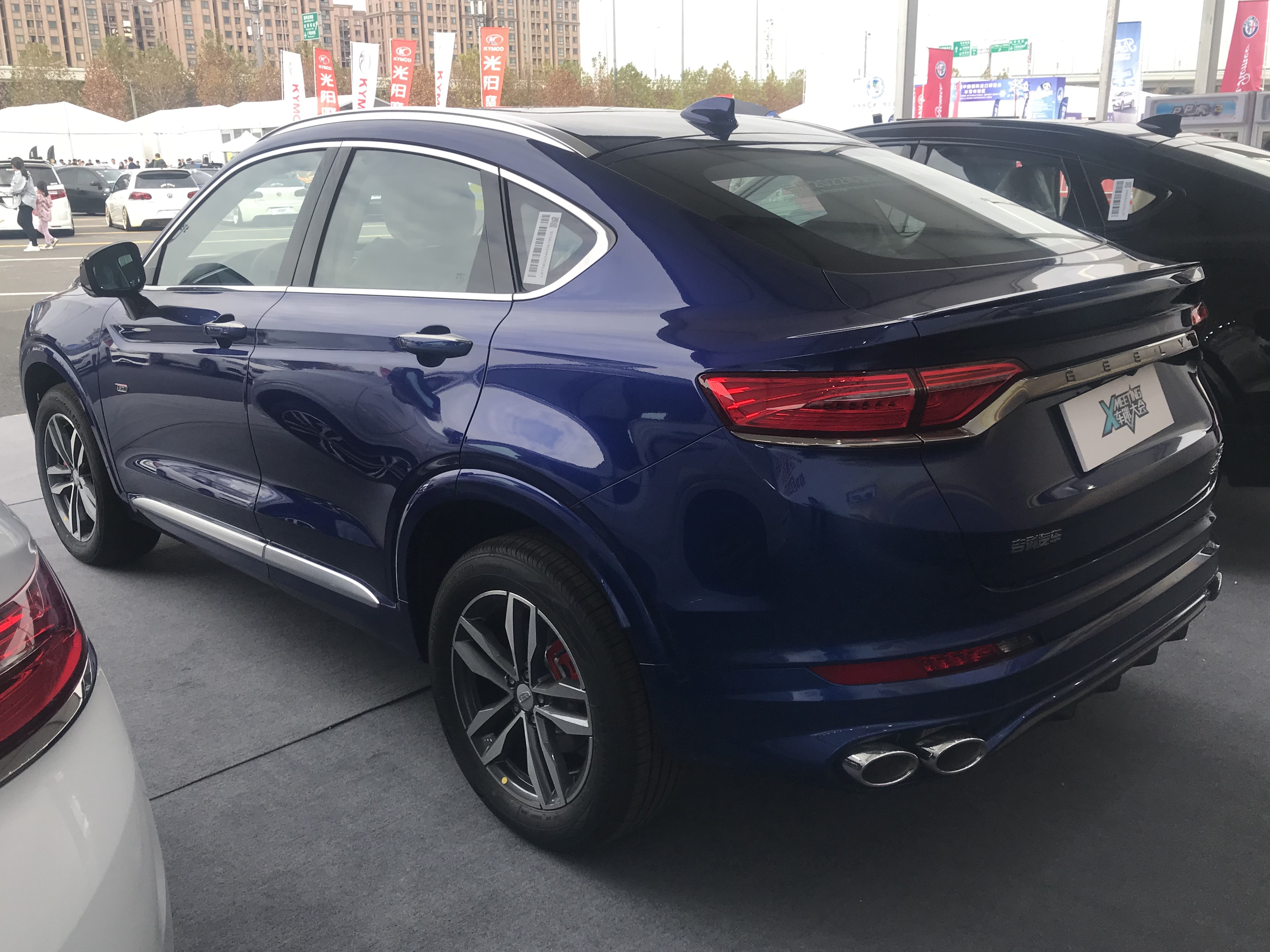 Geely Xingyue